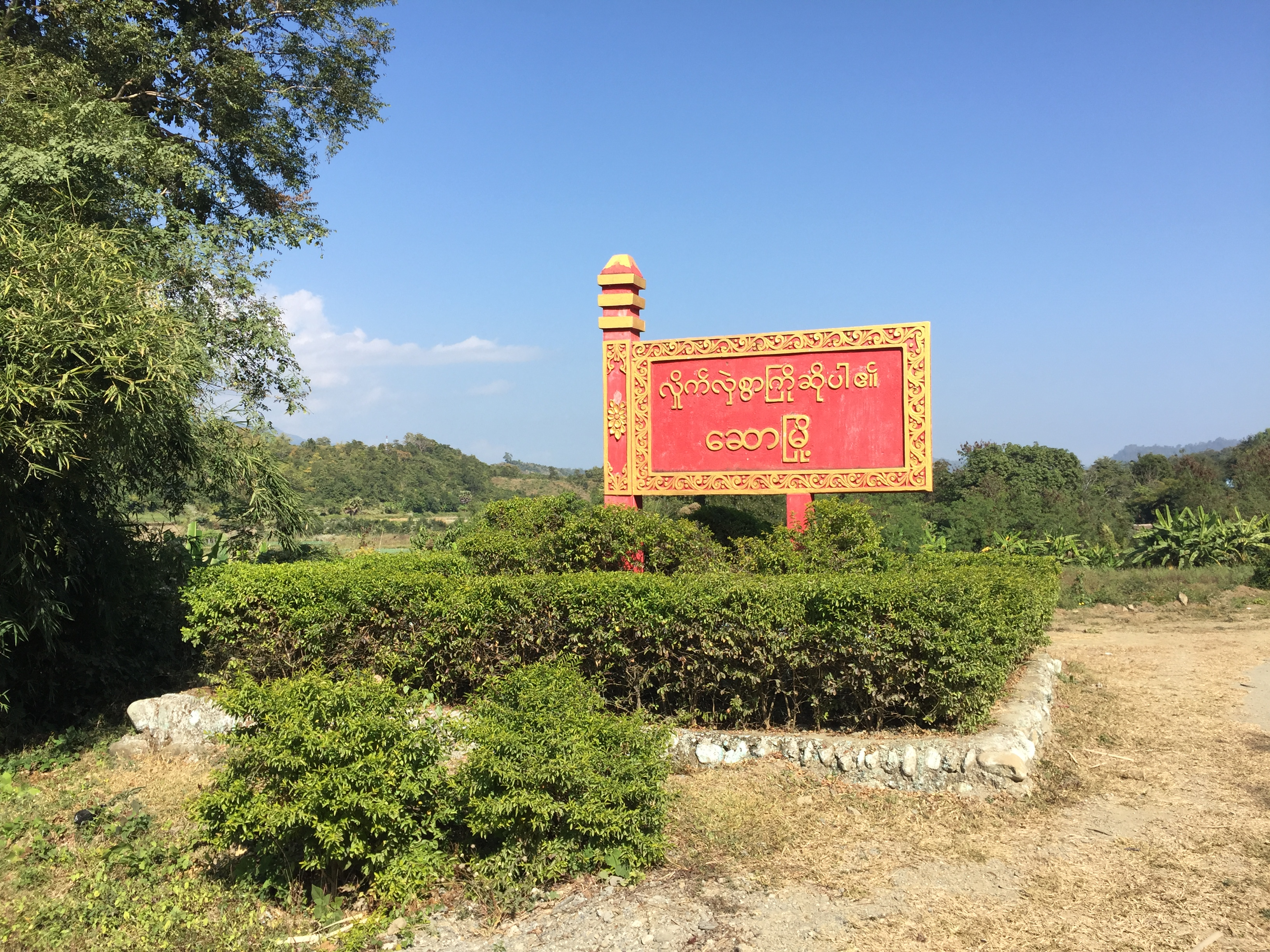 Saw Township Signboard မြန်မာဘာသာ: ဆောမြို့ ဆိုင်းဘုတ်